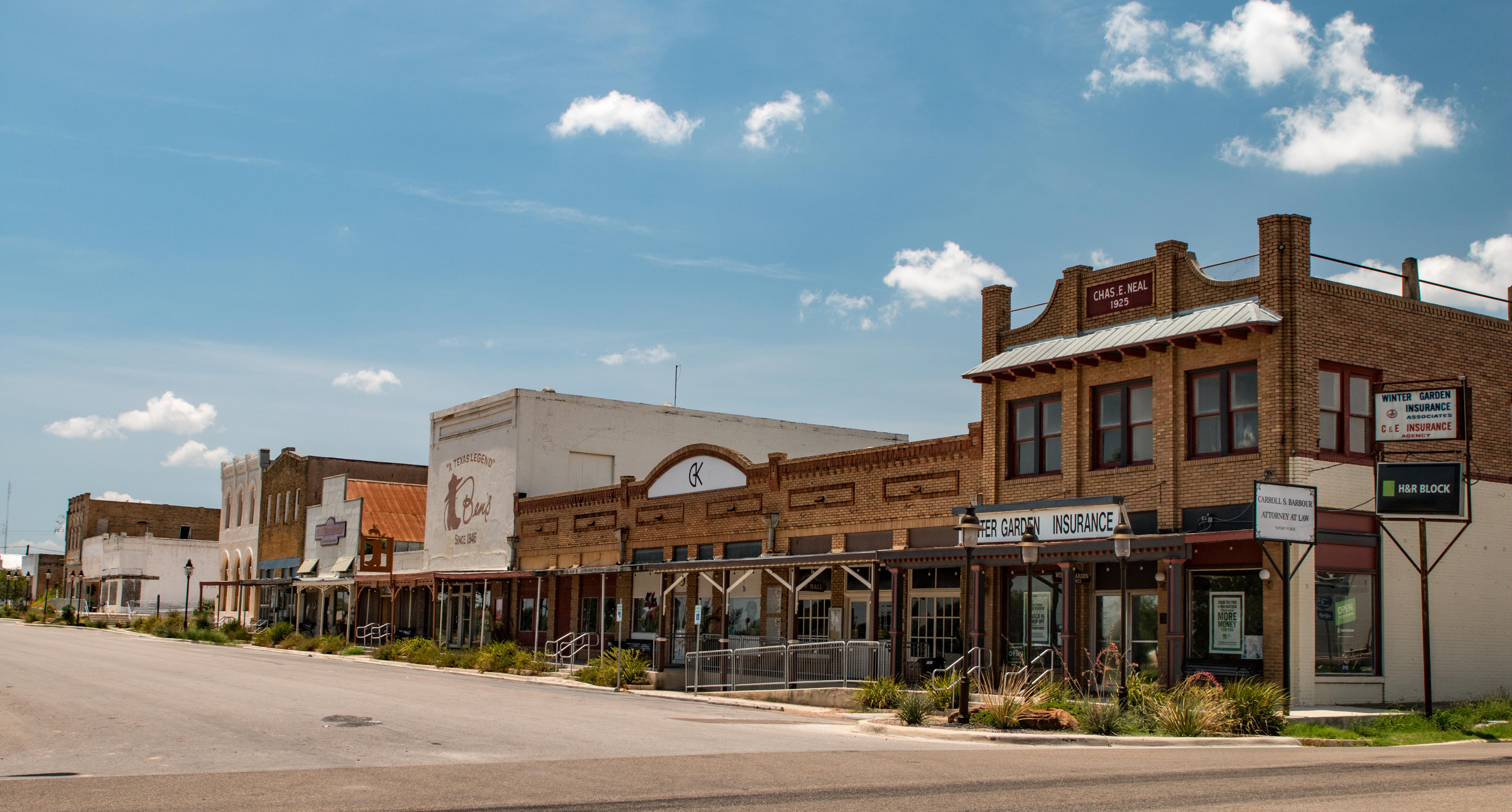 Cotulla Downtown Historic District in Cotulla, Texas